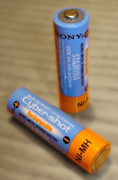 NiMH batteries